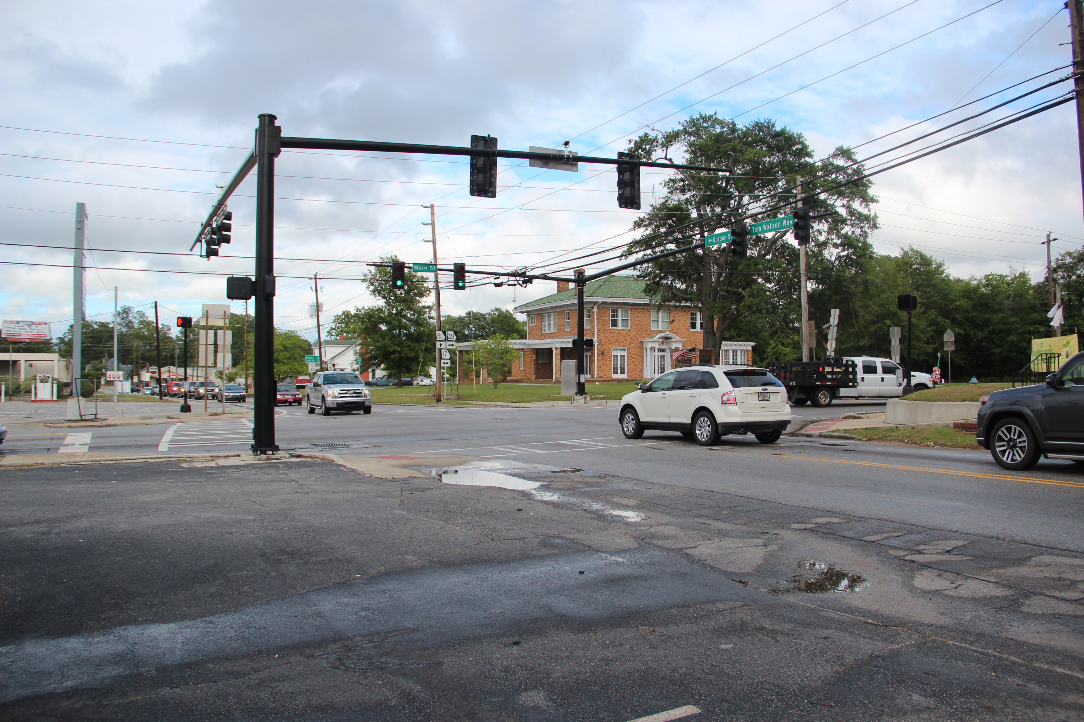 Downtown Thomson, Georgia